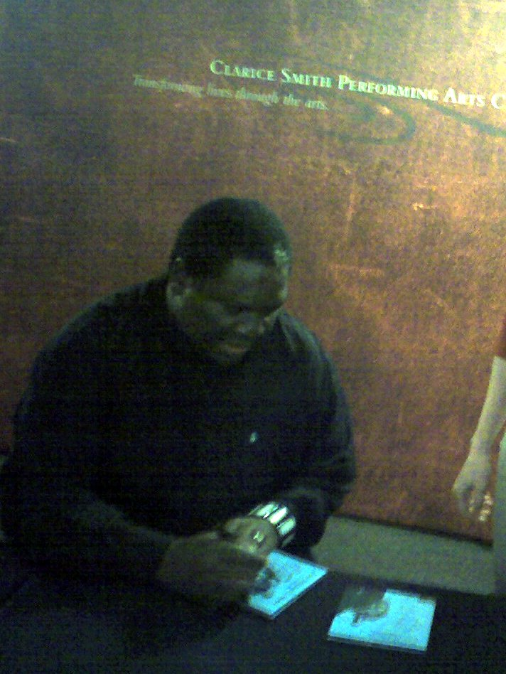 South African musician Vusi Mahlasela signing CDs after a performance at the Clarice Smith Performing Arts Center at the University of Maryland